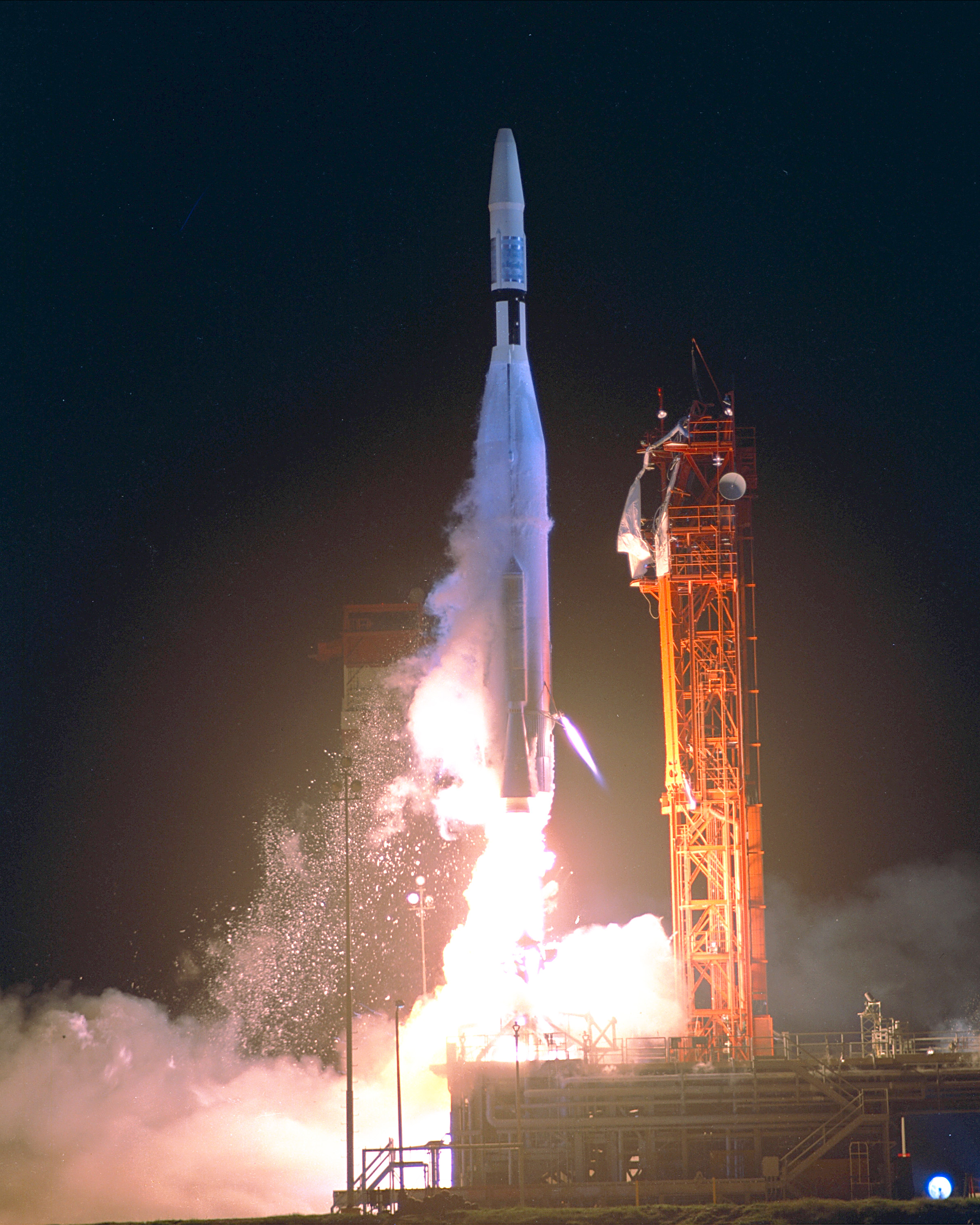 An Atlas-Agena 5 carrying the Mariner 1 spacecraft lifting off from Cape Kennedy Launch Complex 12.